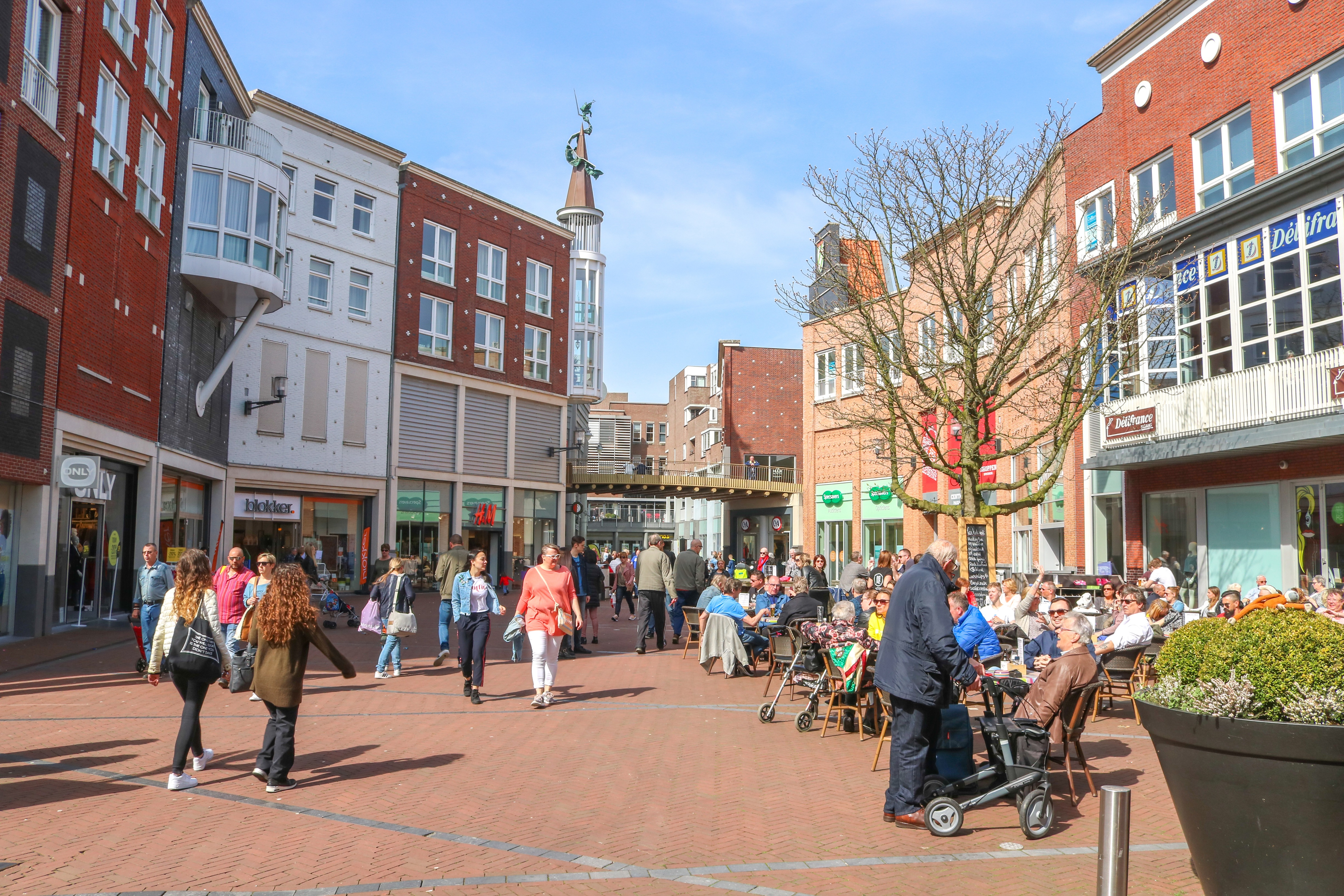 The new Square Shopping Centre in Spijkenisse